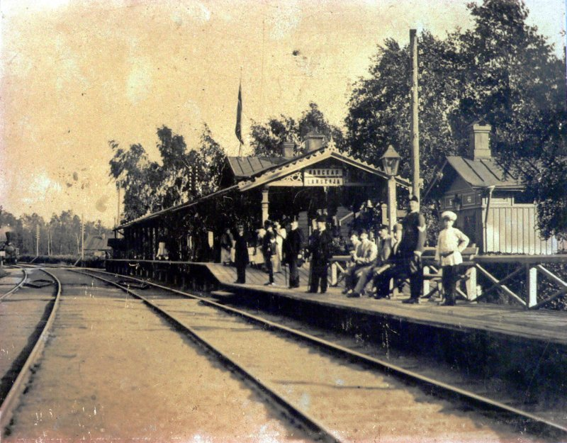 Photo of Lanskaya railway ststion in the early 20th century